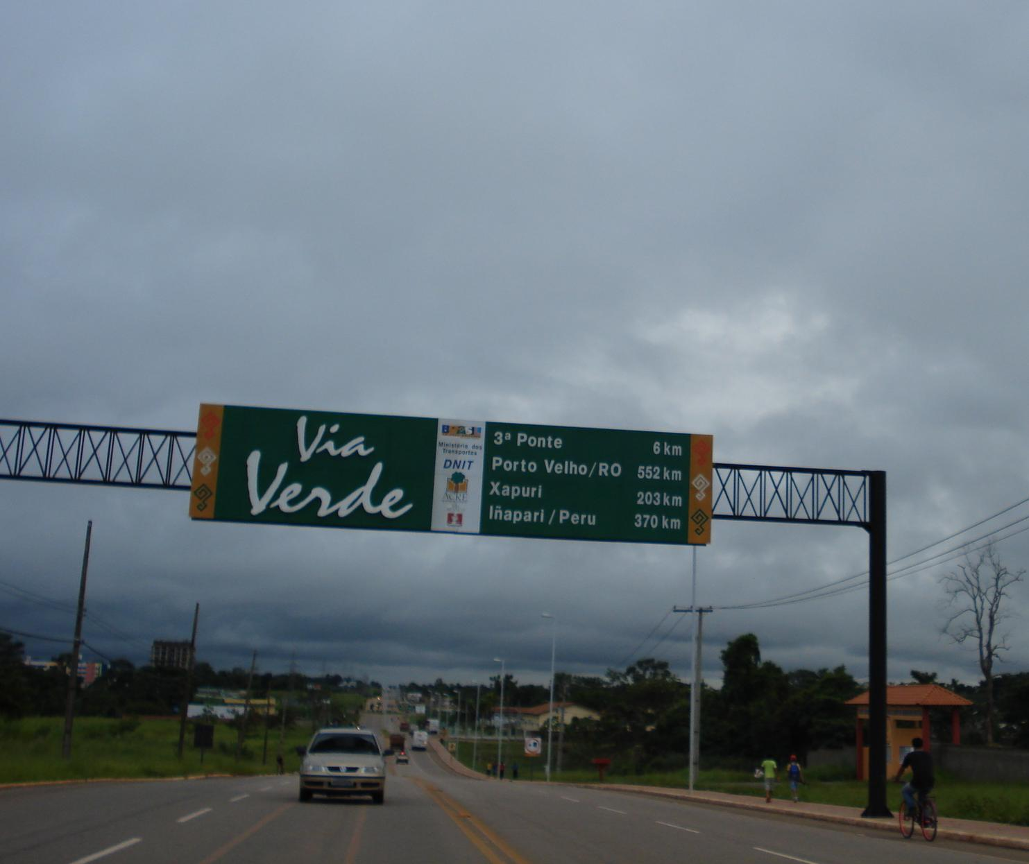 Brazil-Peru Pacific Highway - Green Way, Ring Road of Rio Branco (AC). BR-317